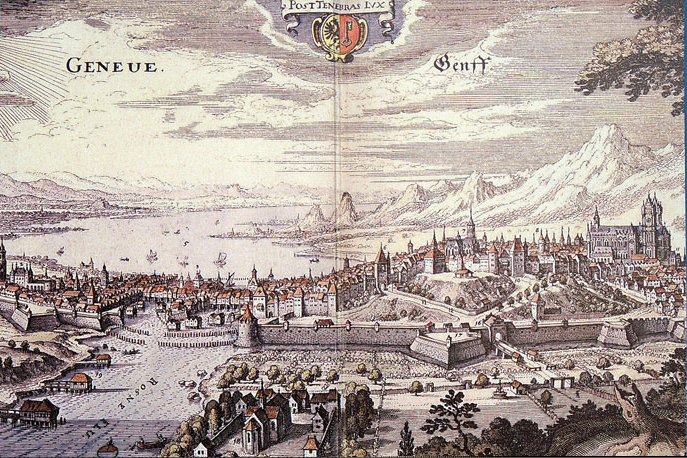 Cityscape of Geneva about 1600, color engraving